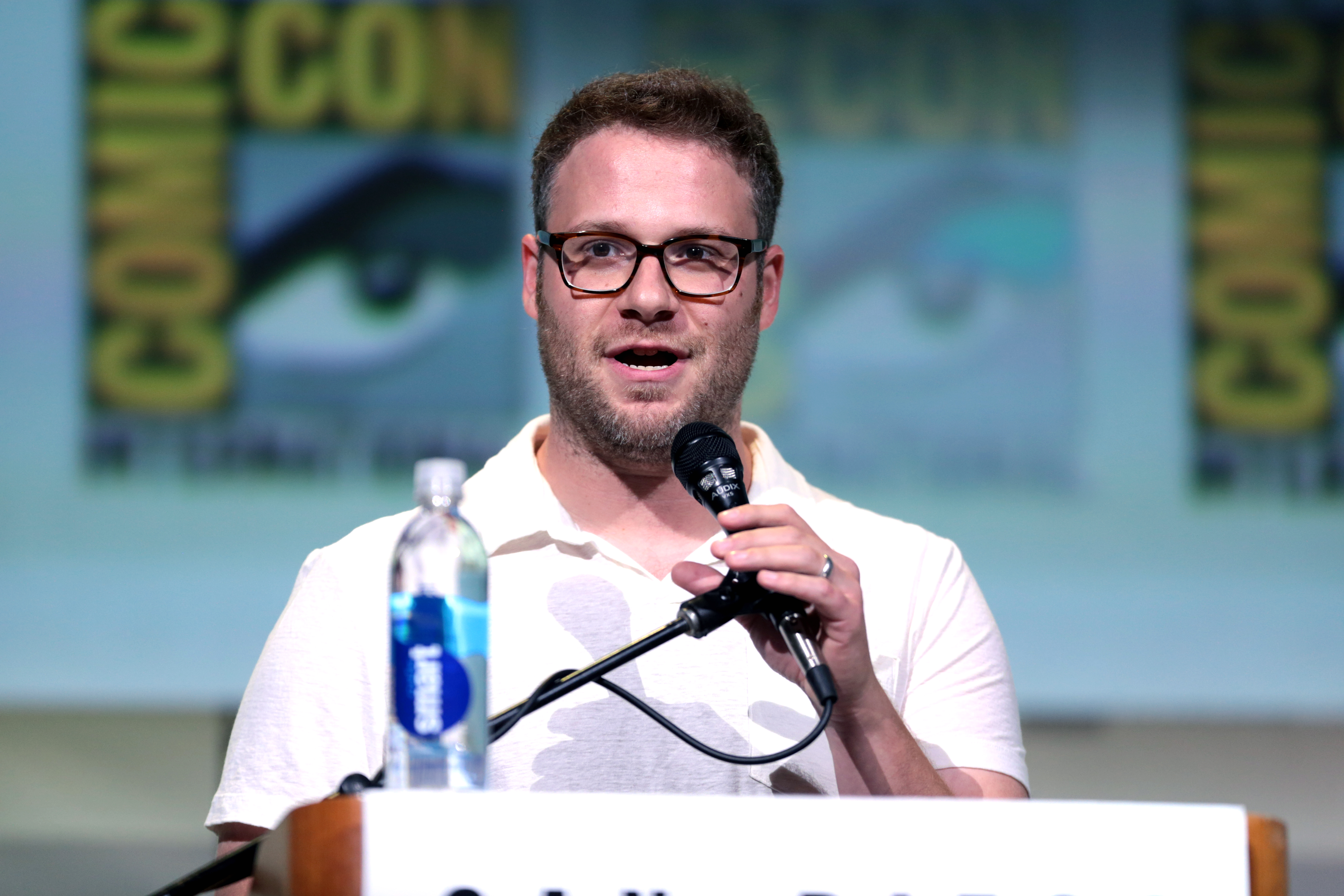 Seth Rogen speaking at the 2016 San Diego Comic Con International, for "Preacher", at the San Diego Convention Center in San Diego, California.